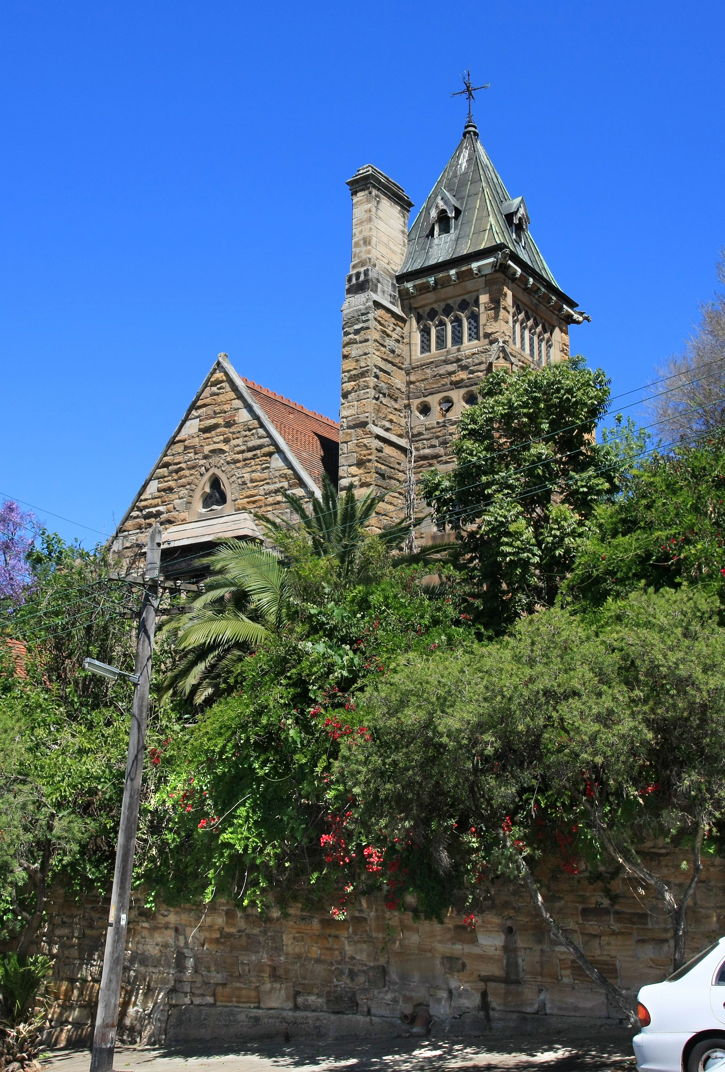 Historical House in Johnston St Annandale